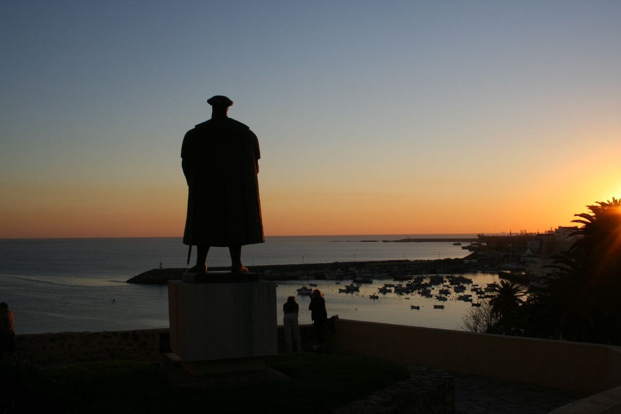 Vasco da Gama son of the city of Sines